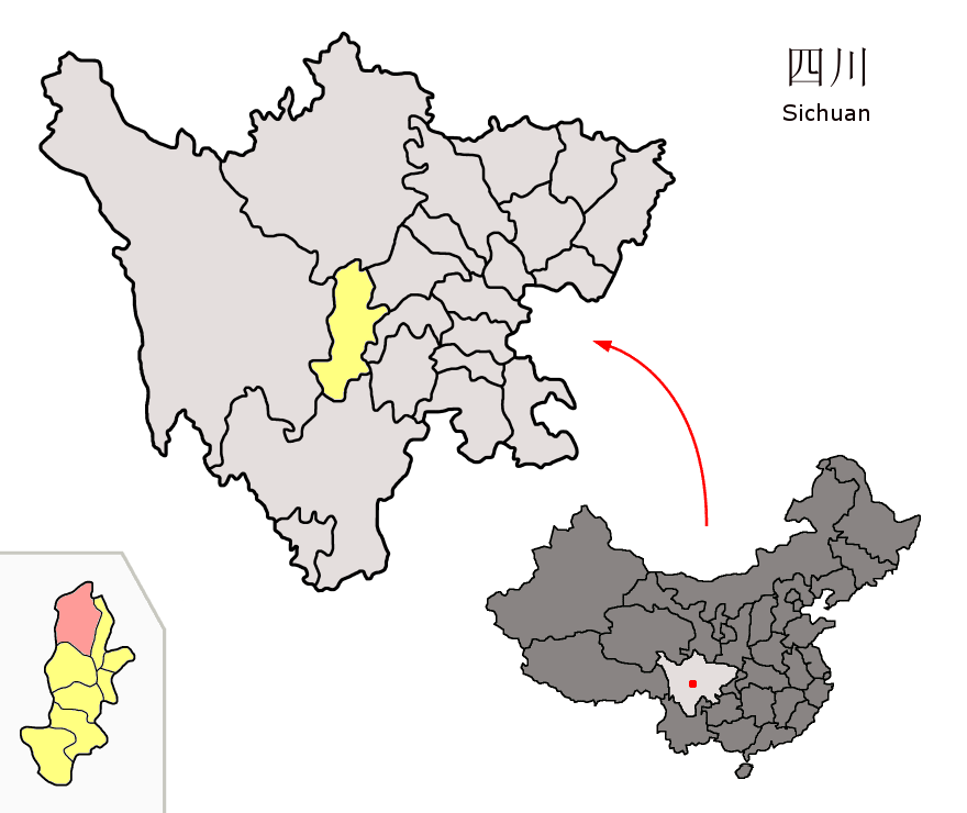 Location of Baoxing County (pink) and Ya'an Prefecture (yellow) within Sichuan province of China Map drawn in october 2007 using various sources, mainly : Sichuan province administrative regions GIS data: 1:1M, County level, 1990 Sichuan Counties map from